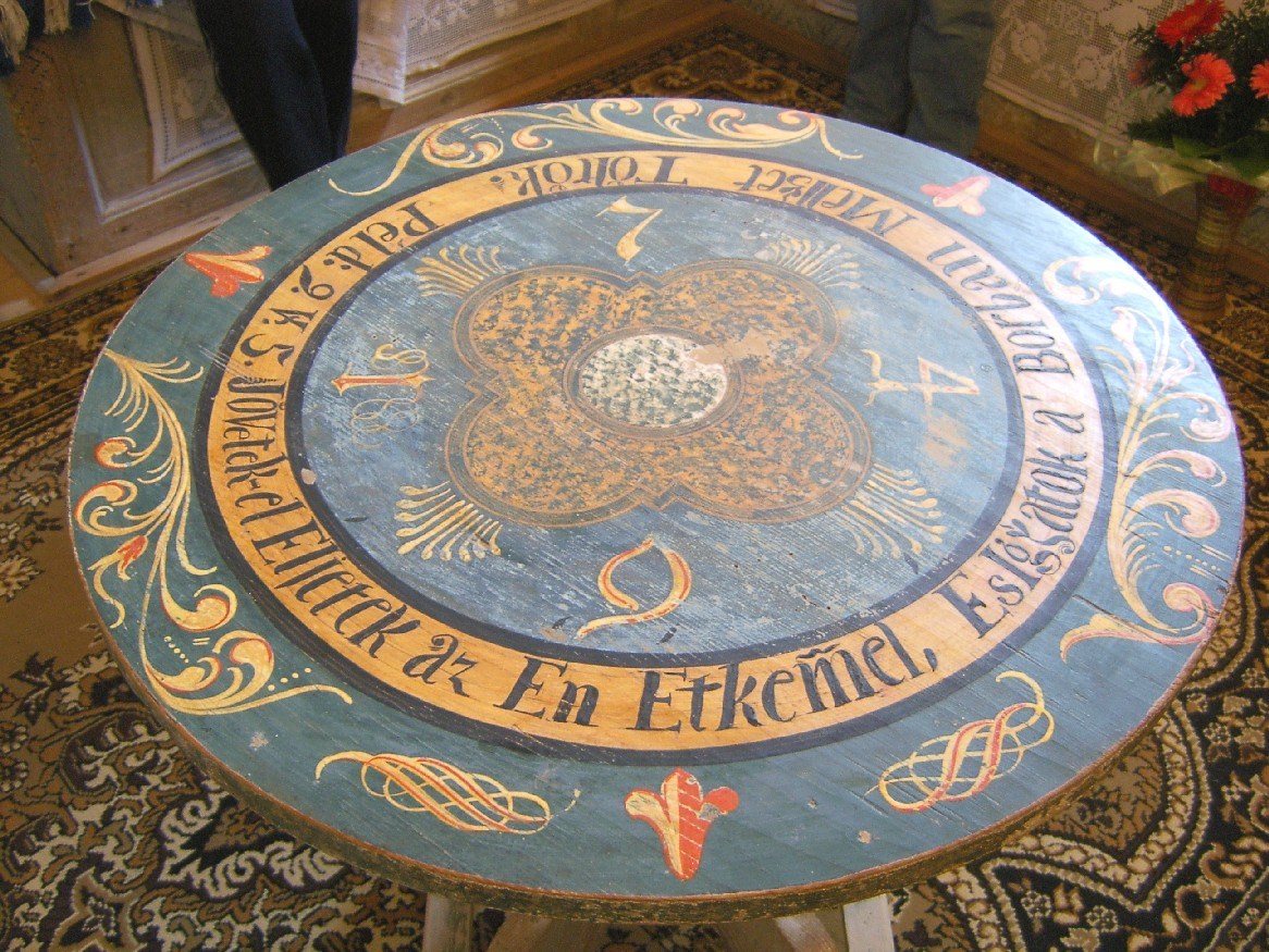 Communion table in the reformed church of Domoşu (hu. Kalotadámos), Transylvania